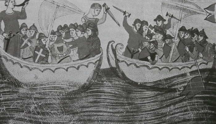 Battle of Meloria (1284), in an image taken from the 14th century Nuova Cronica of Giovanni Villani